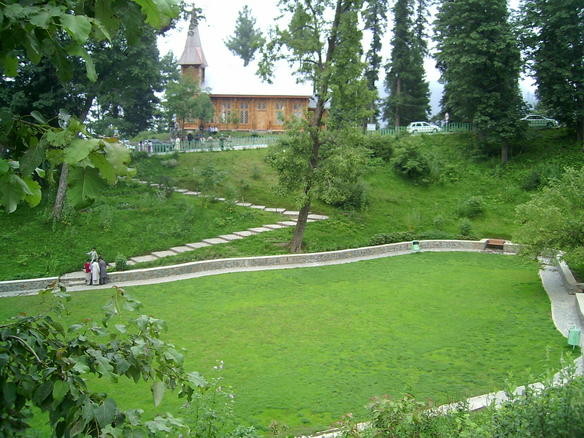 A resort at Ayubia National Park, Abbottabad District, Khyber Pakhtunkhwa, northern Pakistan.